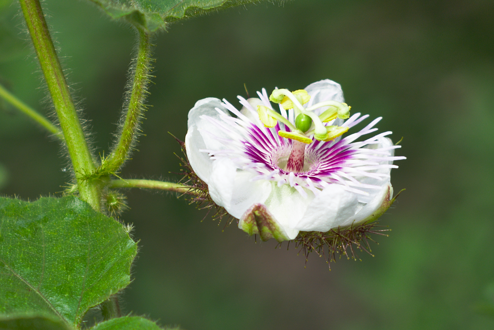 Passiflora foetida in Chennai Suburbs